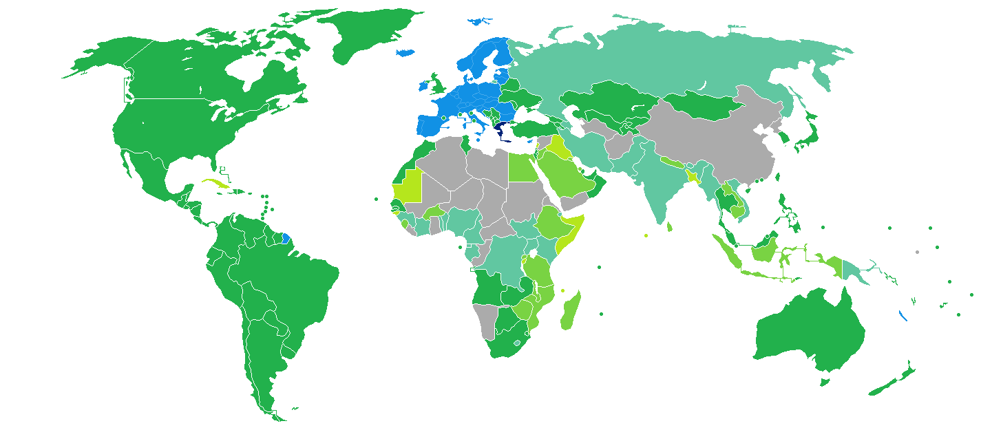 Visa requirements for Greek citizens Greece Freedom of movement Visa not required Visa on arrival eVisa Visa available both on arrival or online Visa required prior to arrival